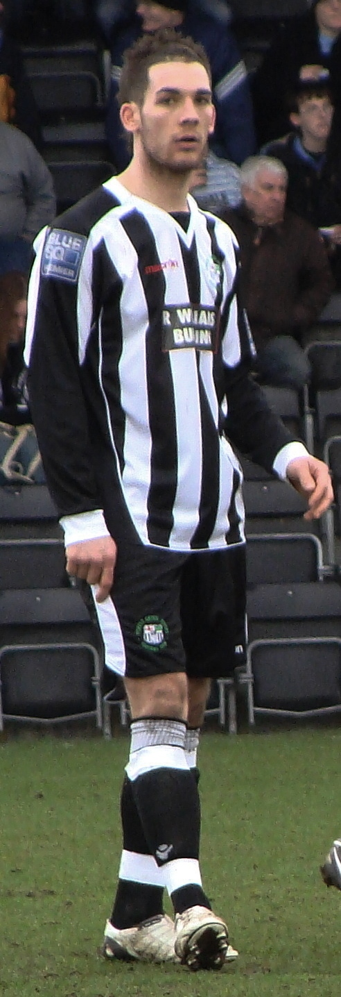 Reece Styche with FGR